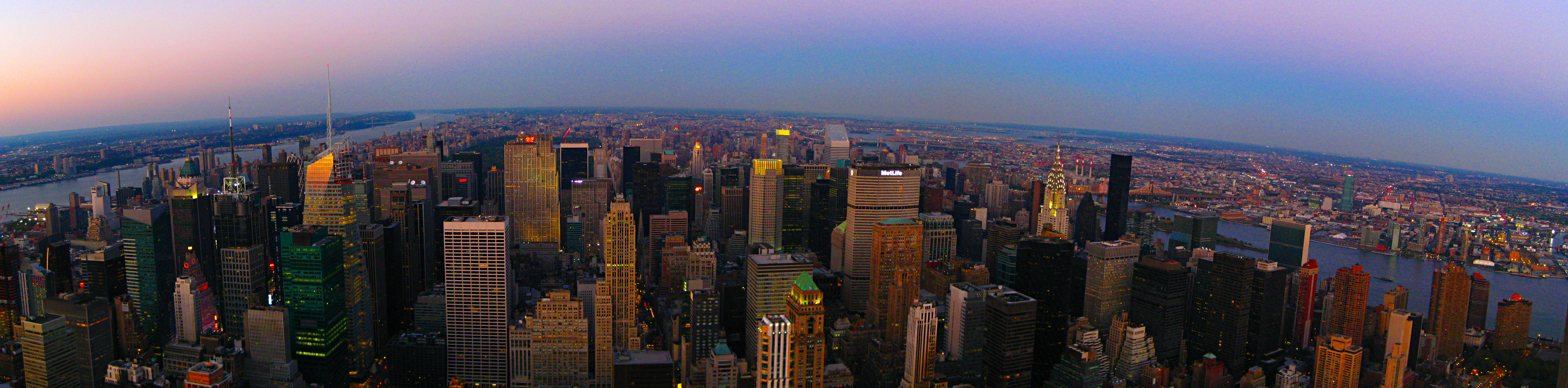 Panoramic view of midtown Manhatten taken from the 86th floor observatory of the Empire State Building.